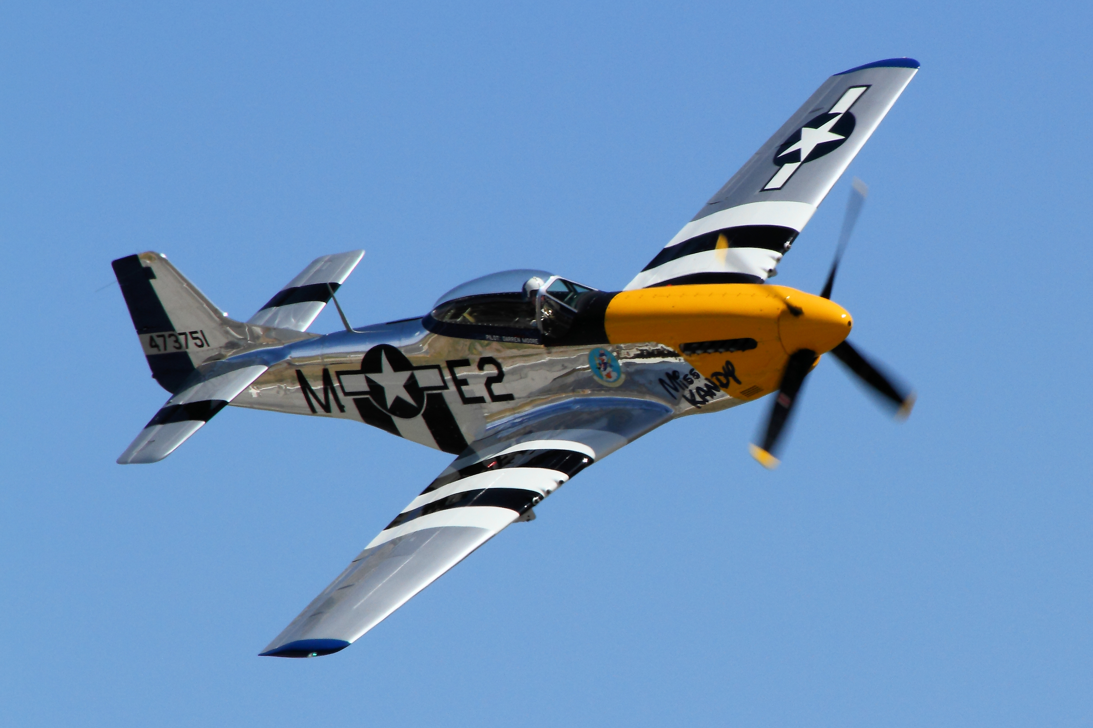 P-51D Mustang "Miss Kandy" "Planes of Fame" Chino California USA Honeymoon